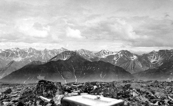 Bisected view of Endicott plateau and Endicott Mountains carved from it, principally in Fickett Series, looking south. Wiseman district, Yukon region. Alaska. 1901. Plate 7-B, as a panorama, in U.S. Geological Survey. Professional paper 20. 1904. Image file